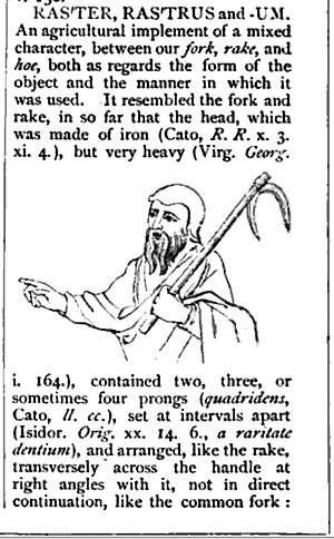 Entry on the term "raster" in antiquities dictionary, with drawing of the rake-like implement